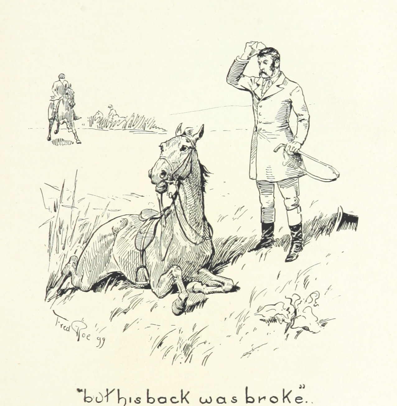 "The Works of G. J. Whyte-Melville. Edited by Sir H. Maxwell. [With illustrations by J. B. Partridge, Hugh Thomson, and others.]"